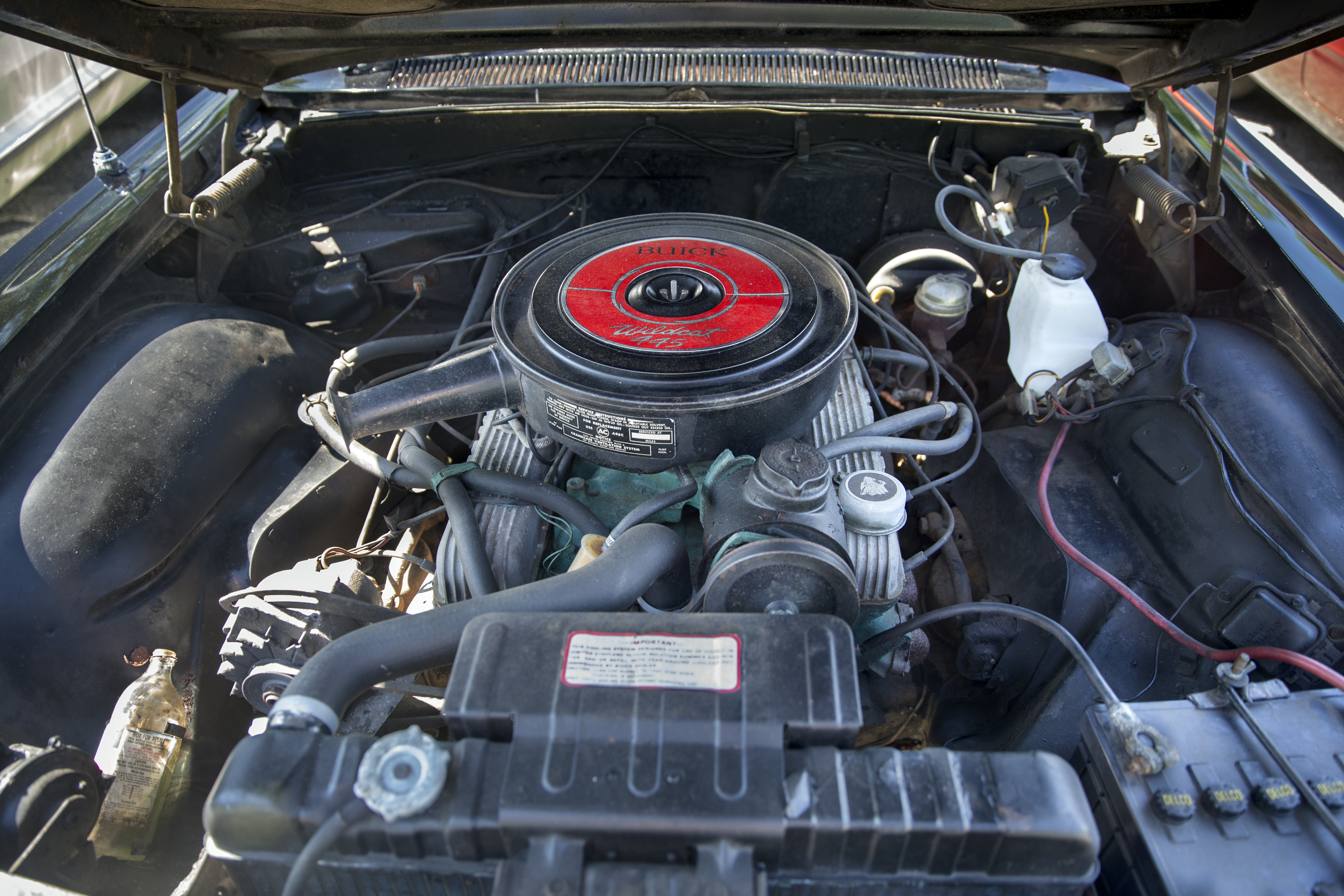 The 401ci Nailhead V8 engine in a 1964 Buick Wildcat. "Wildcat 445" is the name of this engine, with "445" referring to the engine's torque (in foot-pounds).